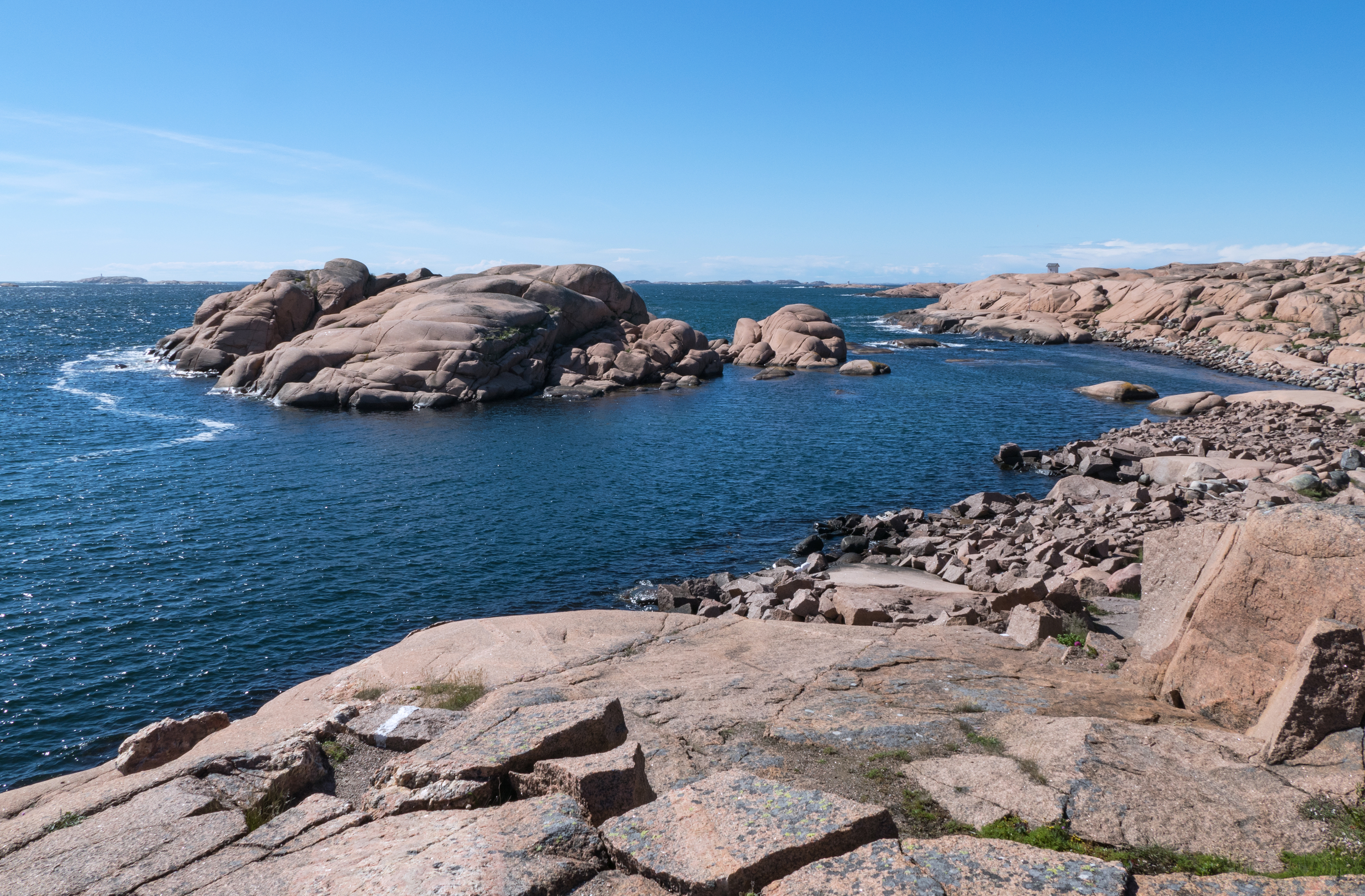 The glittering cliffs at Stångehuvud nature reserve in Lysekil, Sweden. The red granite cliffs are noted for their colour and the large feldspar and mica crystals (about 10 x 10 mm) that make any part of the cliffs glitter when the sun reflects off them. The cliffs in the nature reserve were saved from quarrying at the beginning of the 20th century by Calla Curman. She bought the whole area and donated it to Royal Swedish Academy of Sciences in 1925.This image illustrates how light, at different angles, is reflected off the feldspar crystals in the rock.